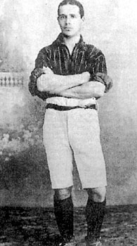 Juan Pena, born 13 august 1882 in Montevideo, Uruguay; died 6 april 1964. Played football and cricket for CURCC.